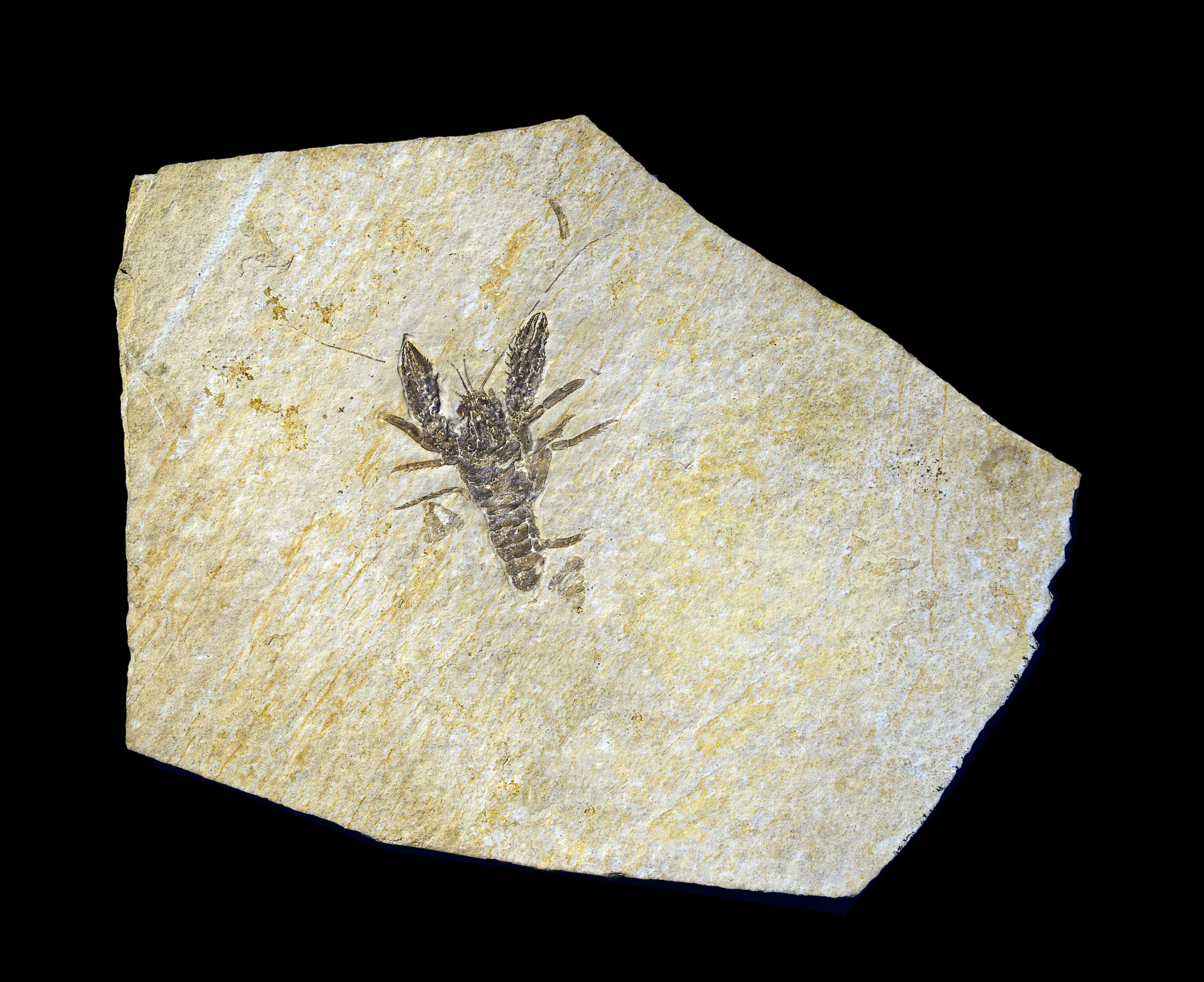 Eryma modestiforme Stage : Upper Jurassic, Tithonian (from -145.5 to - 150.8 million year ago) Locality : Eichstätt, Upper Bavaria, Germany Size : 5.2 cm (eryma)